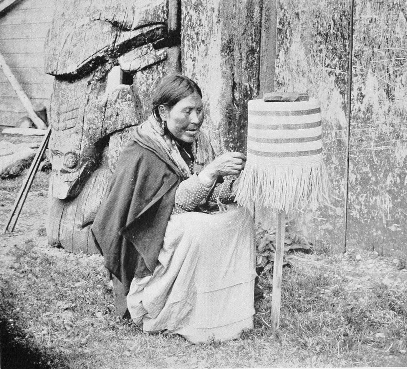 Haida woman of Masset weaving a basket